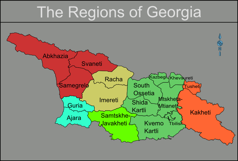 Map of Georgia's Regions, Georgia (country).